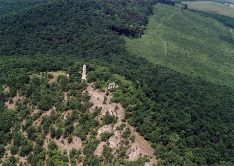 Csővár, Castle, Hungary, aerial photography This is a photo of a monument in Hungary. Identifier: 6958